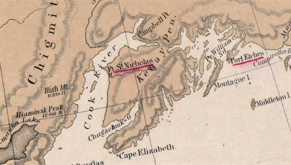 Map of the 'Kenay Peninsular' area in Alaska as depicted in 1867 on the map 'North western America showing the territory ceded by Russia to the United States'